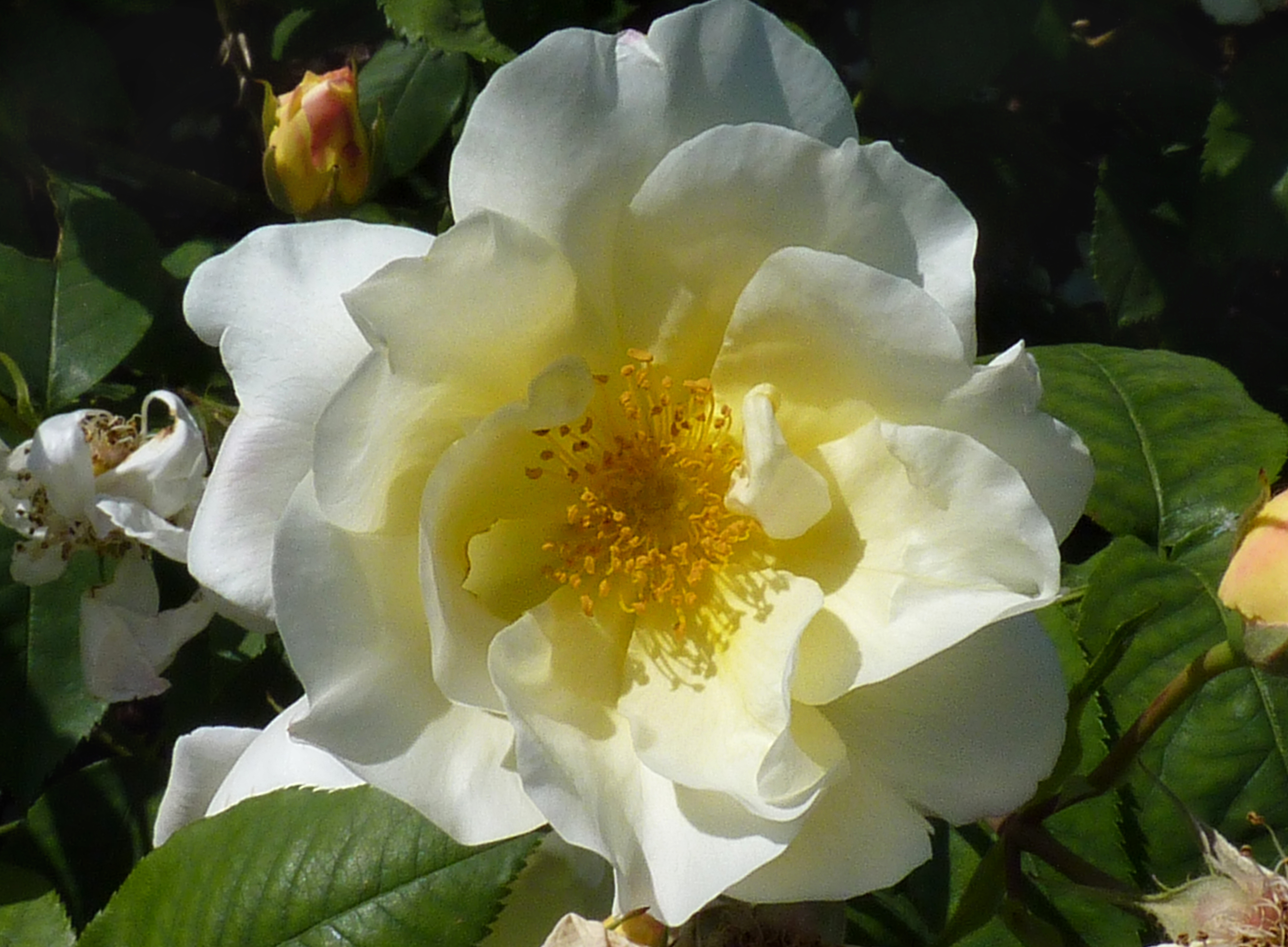 Rosa 'Windrush' (David Austin, 1984), in the international rose garden of Kortrijk, Belgium.